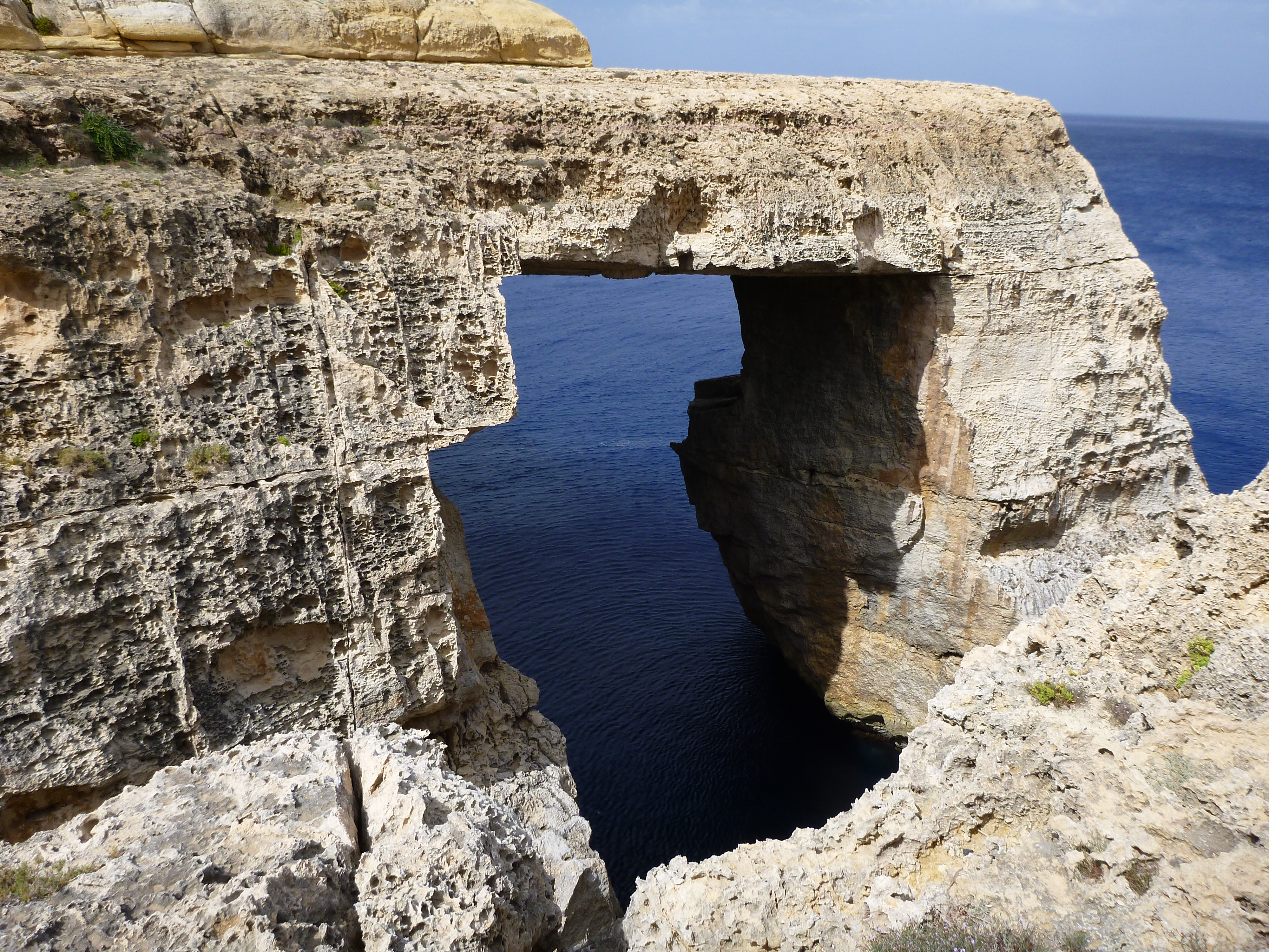 Wied il-Mielah Window